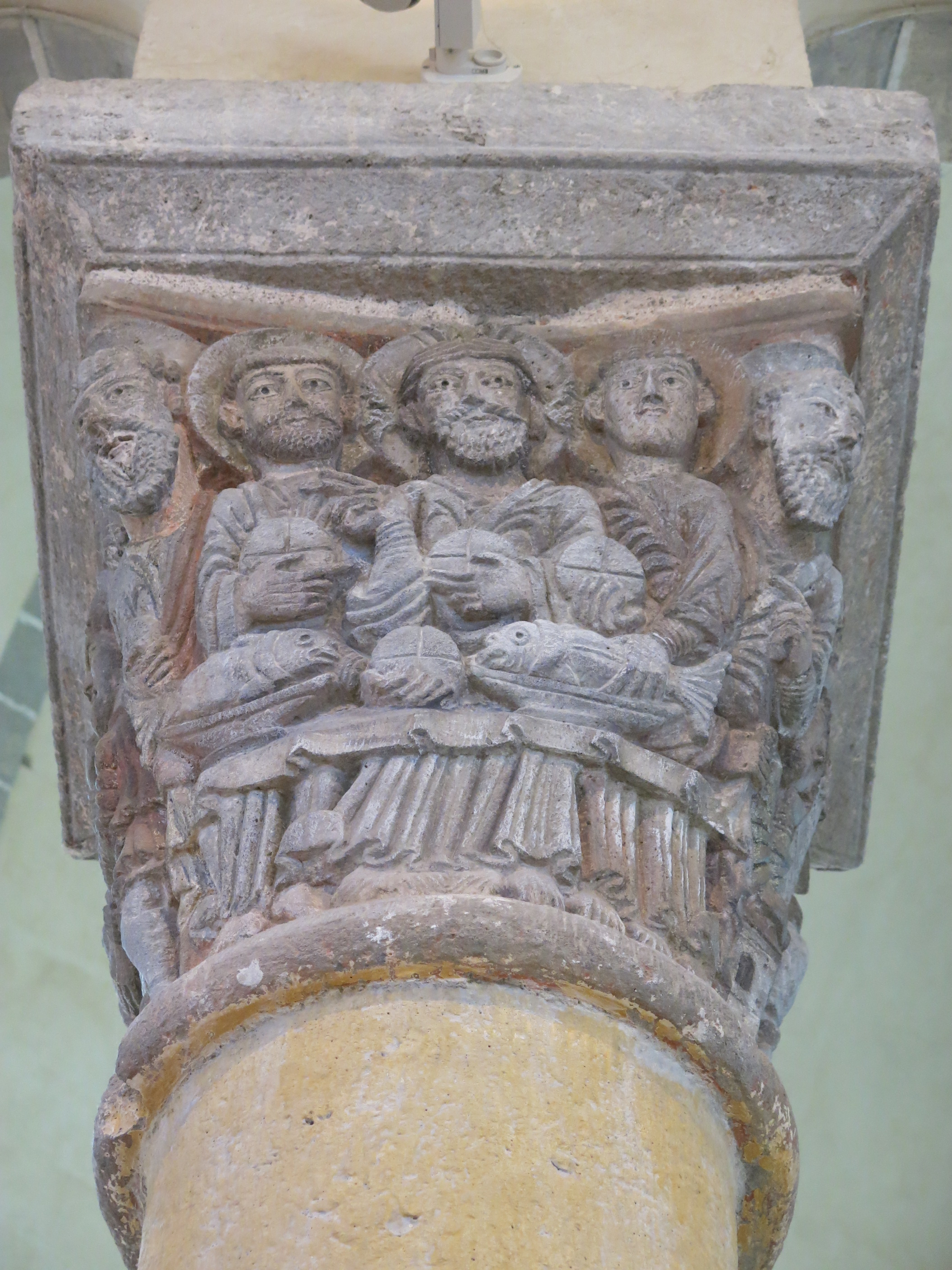 Feeding the multitude on a capital of Saint-Nectaire church (Puy-de-Dôme, France).